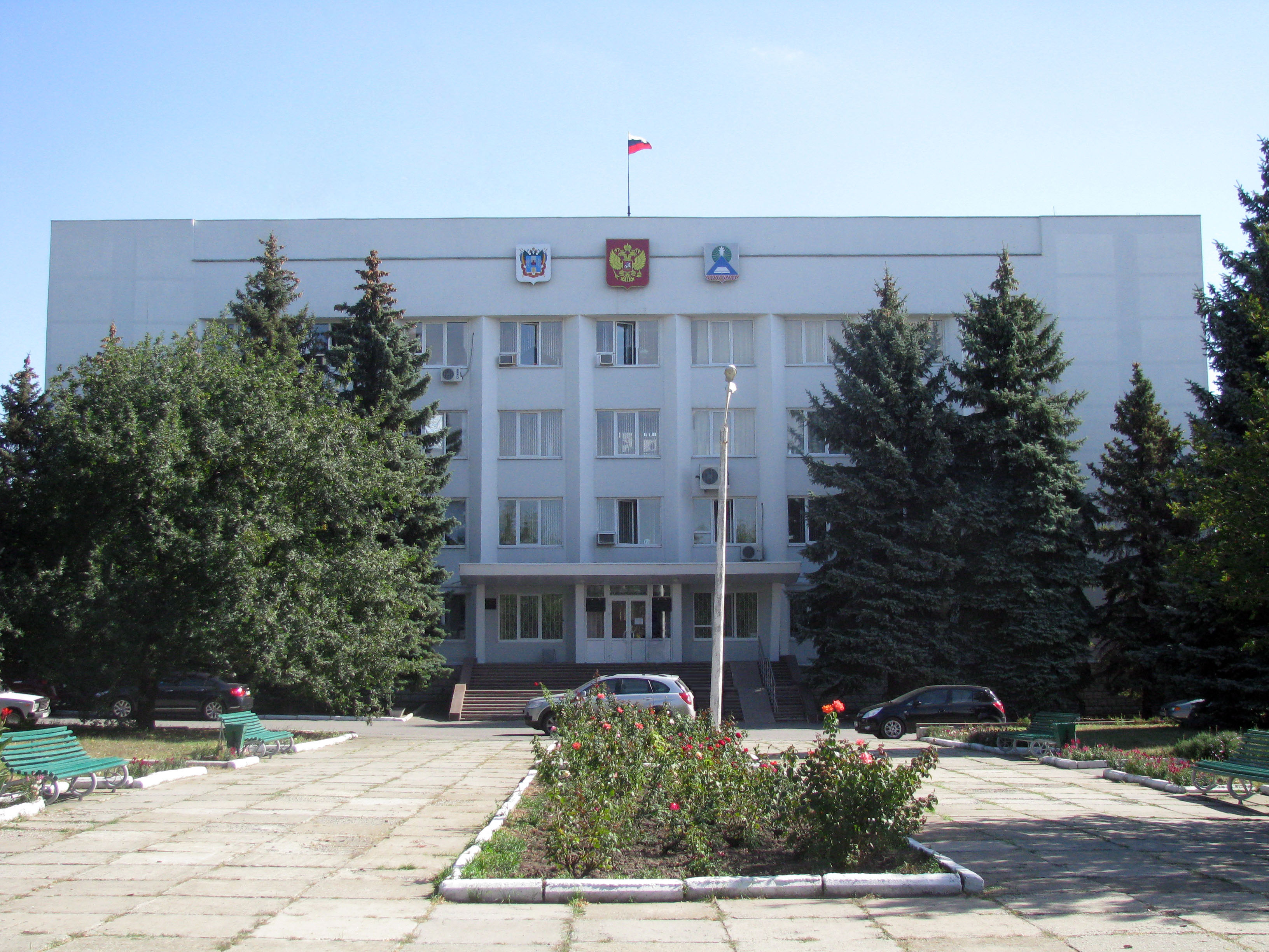 Administration and Duma of Novoshakhtinsk